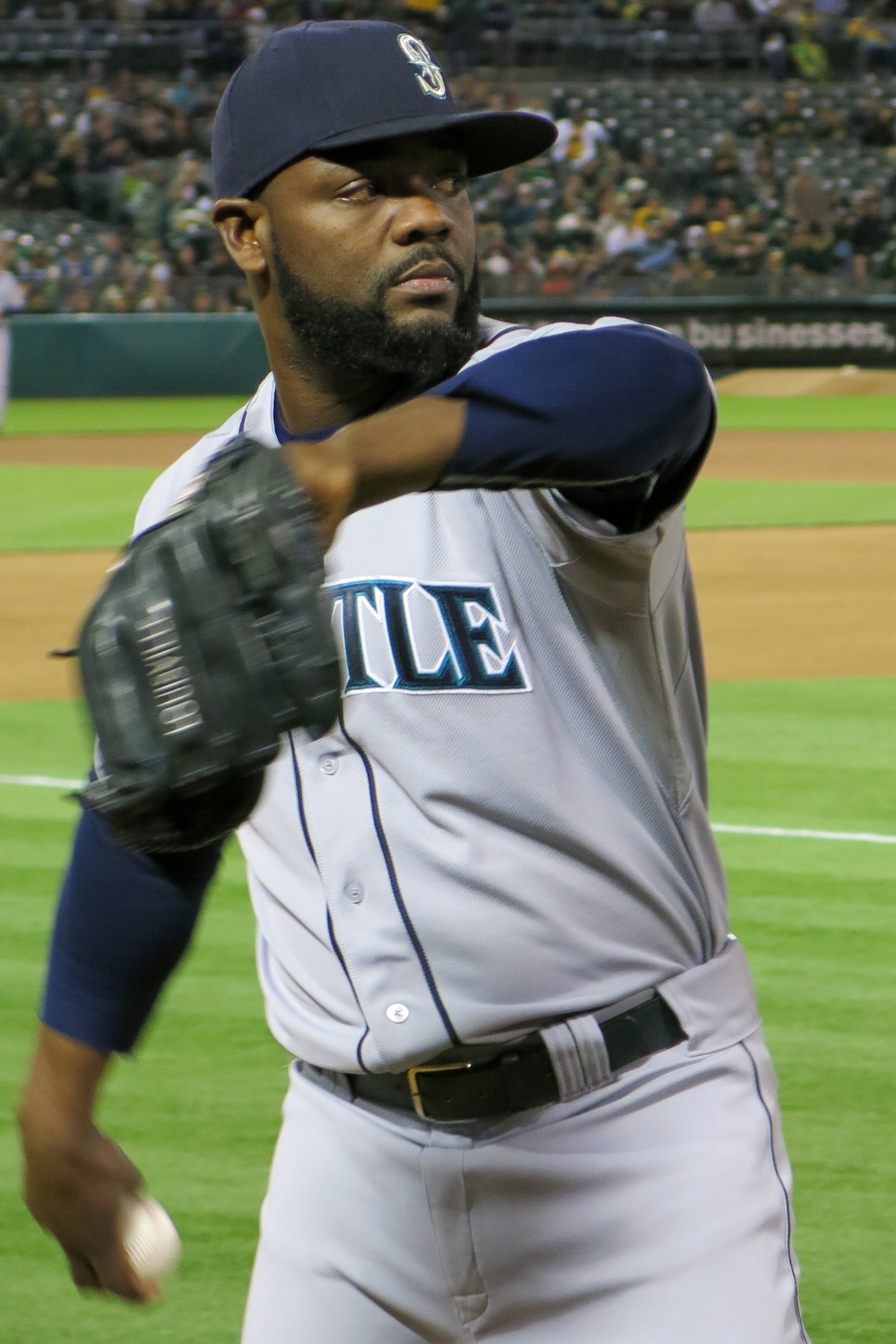 Seattle Mariners closer Fernando Rodney warms up in the bullpen in a game against the Athletics in Oakland, California.